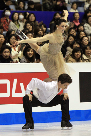 2009 Grand Prix of Figure Skating Final - Tessa Virtue and Scott Moir